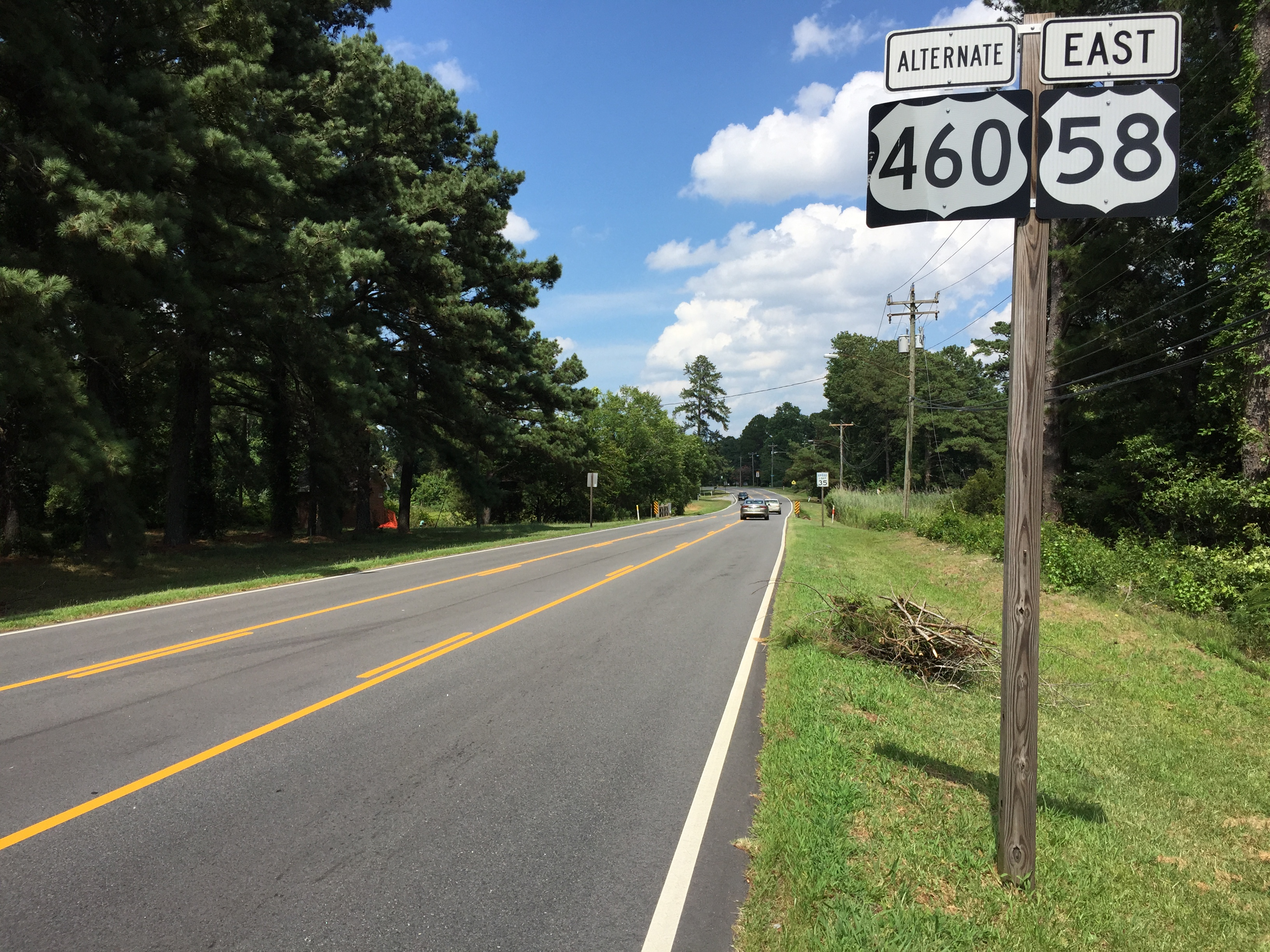 View east along U.S. Route 58 and U.S. Route 460 Alternate (Airline Boulevard) at Flintfield Crescent in Chesapeake, Virginia